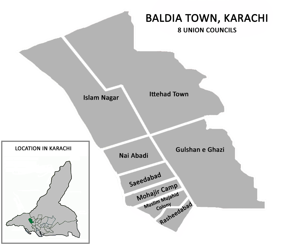 Union Councils of Baldia Town, Karachi